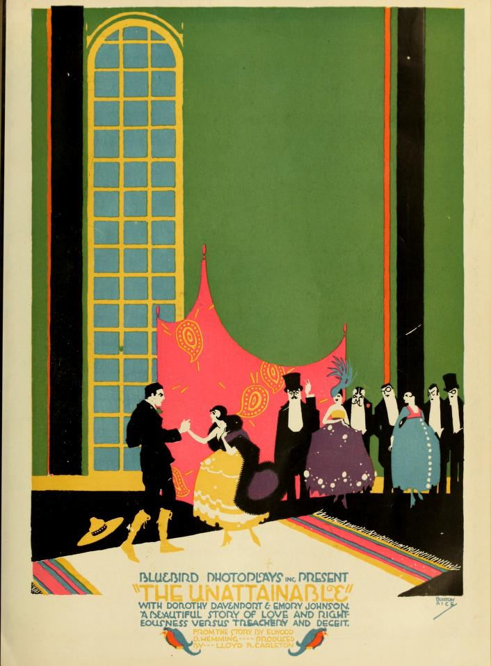 Moving Picture World Ad for movie